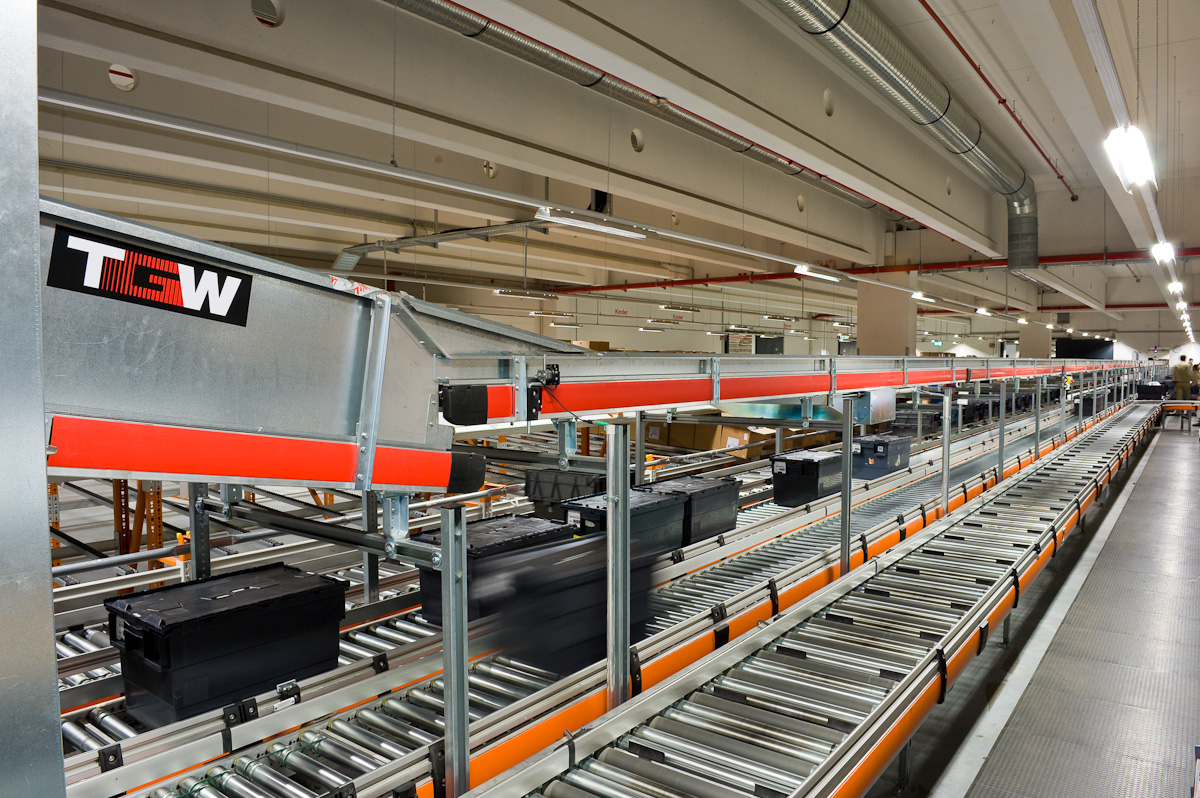 Accumulation roller conveyor for the transport of cartons and totes in distribution centres